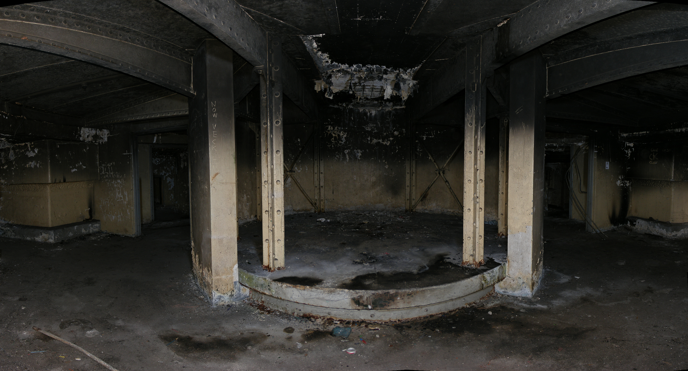 Signal Hill Battery in Watsons Bay, New South Wales. Inside the gun emplacement.